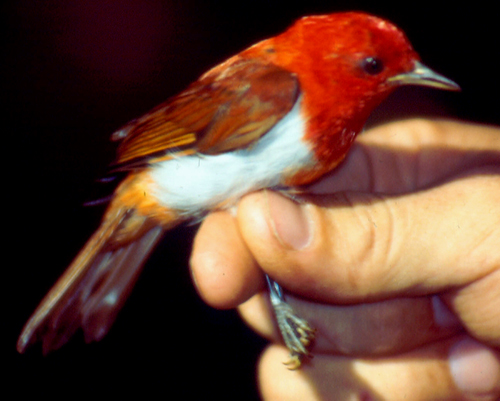 Chrysothlypis salmoni